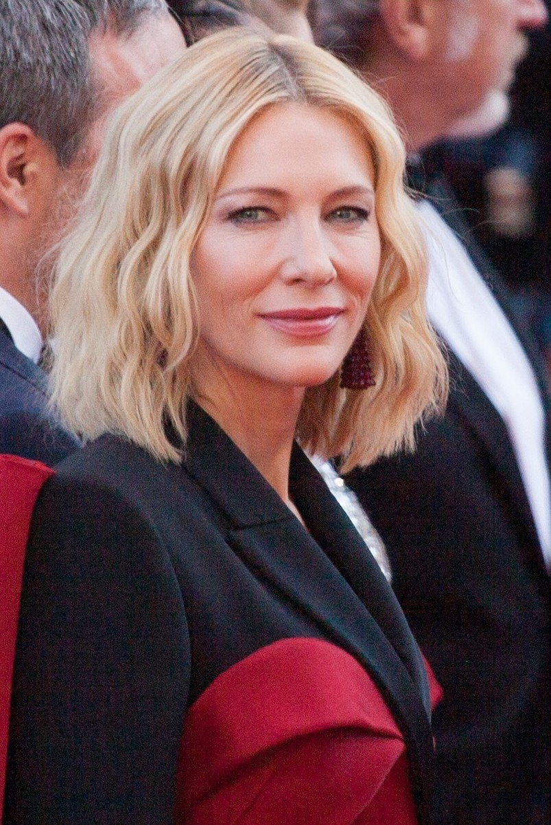 2018-05-19- Cannes-Cate Blanchett-5591